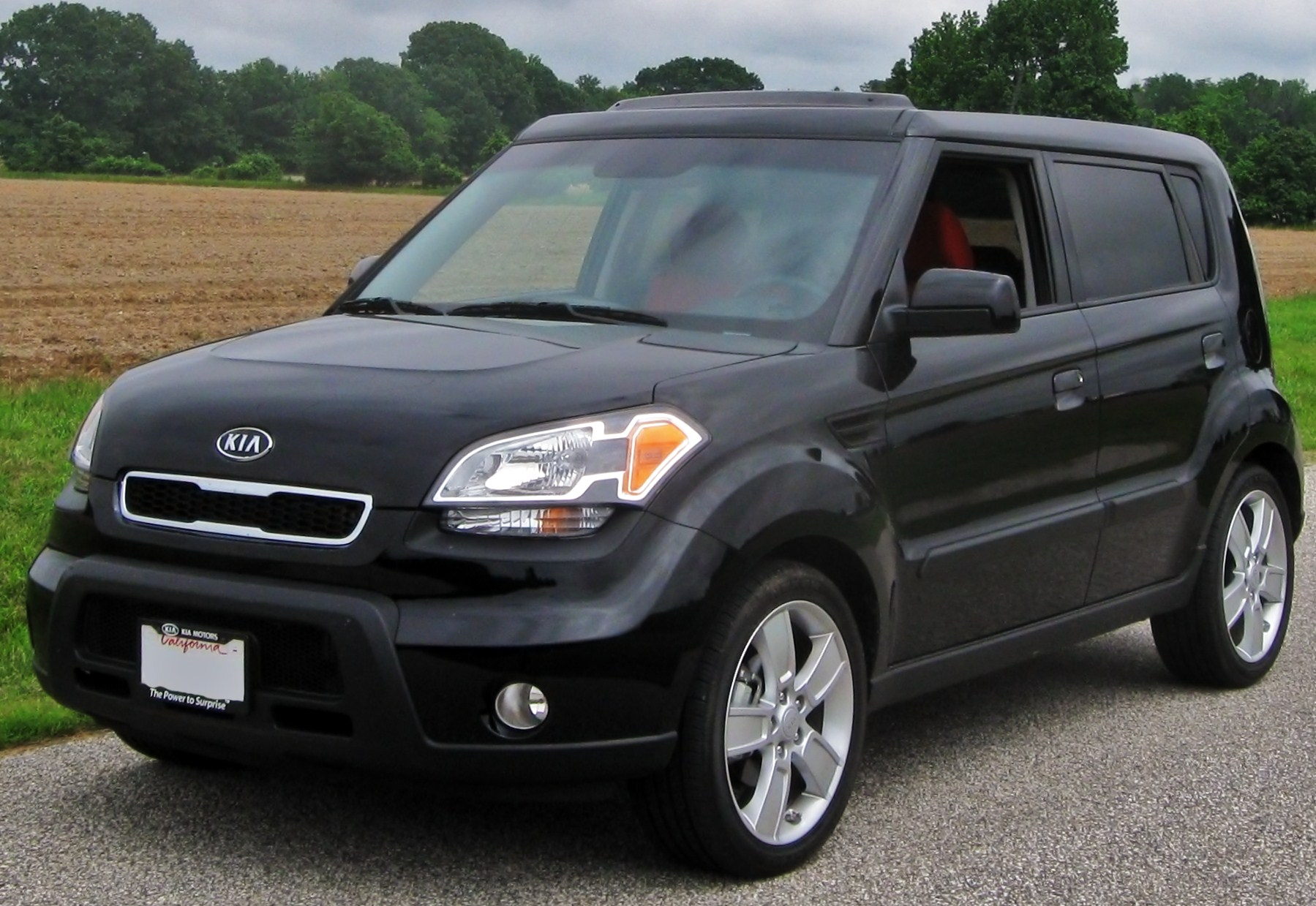 2010 Kia Soul photographed in Nanjemoy, Maryland, USA.